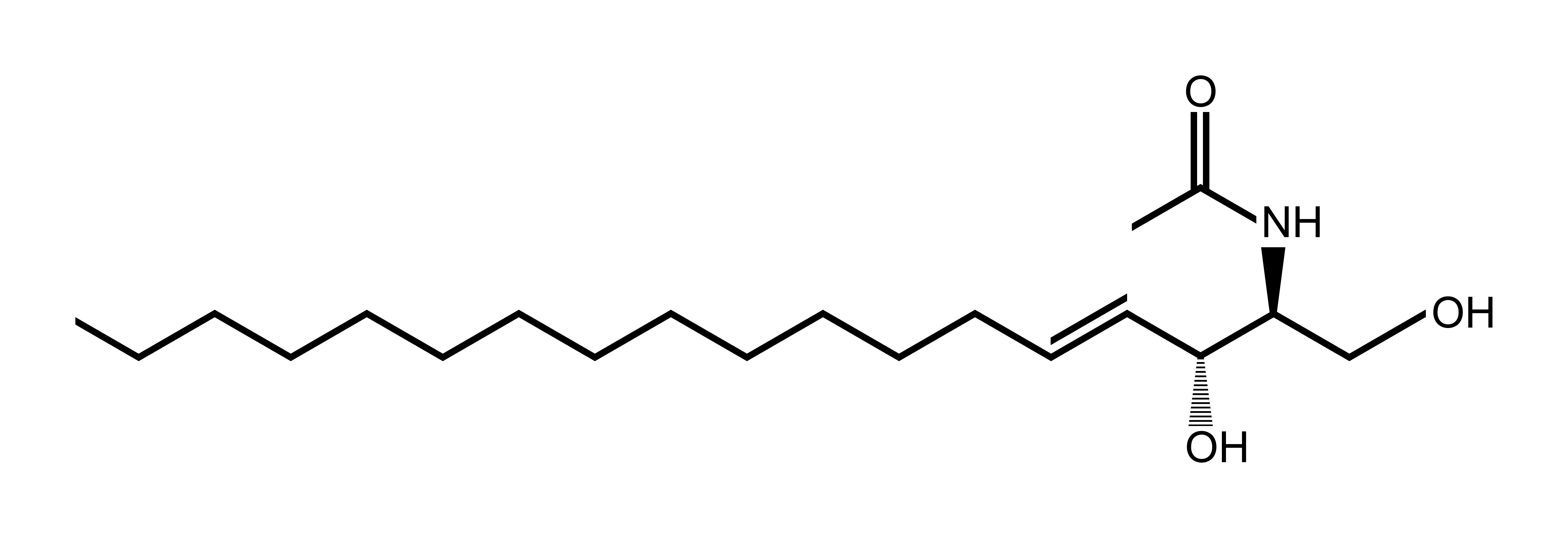 Molecular structure of C2-Ceramide